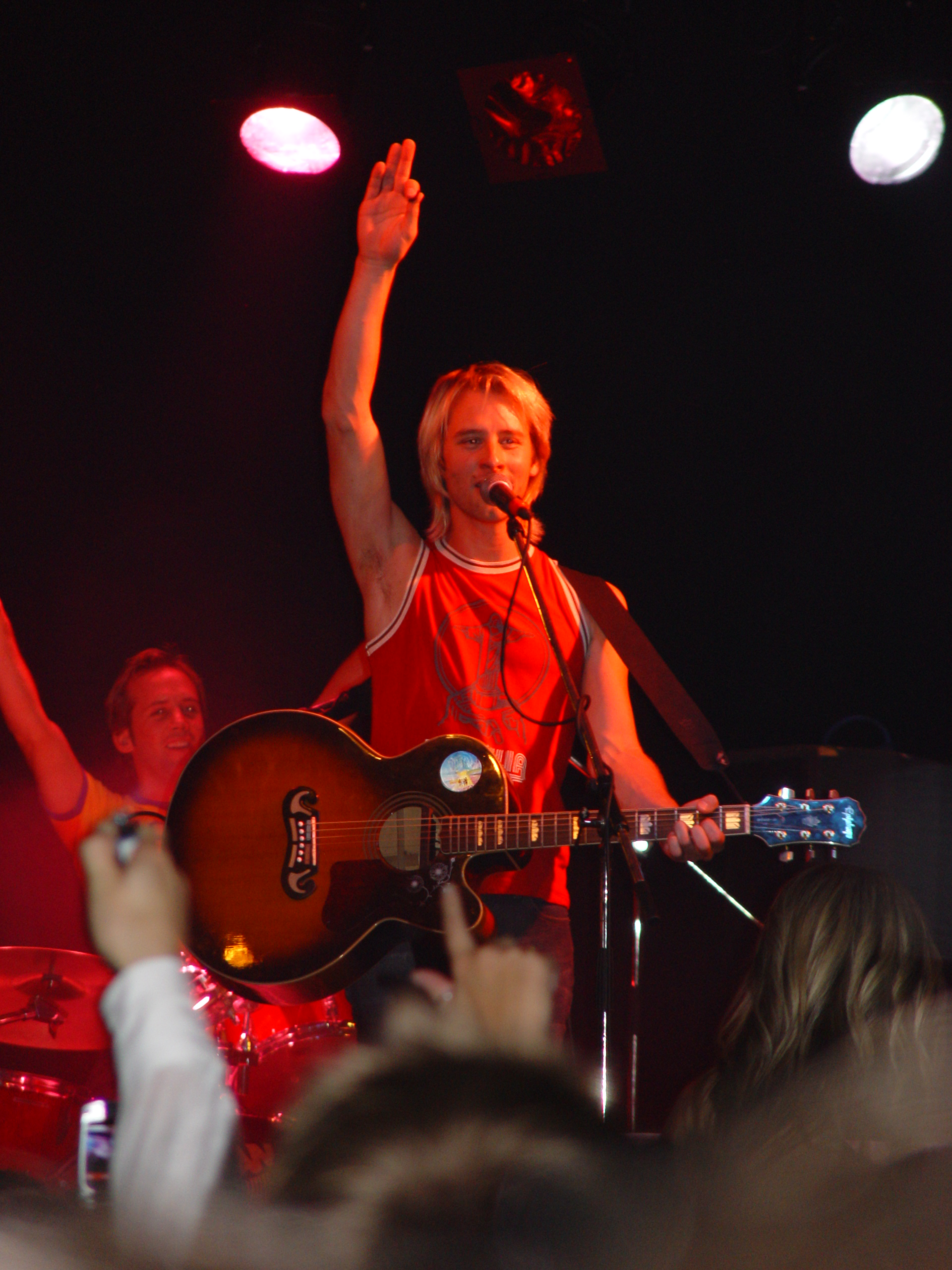 Chesney Hawkes, 2004